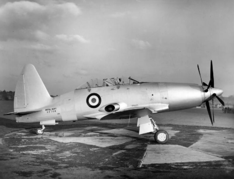 The only Westland Wyvern T.3 trainer aircraft built (serial VZ739). This aircraft was converted in 1950 and scrapped in 1953.